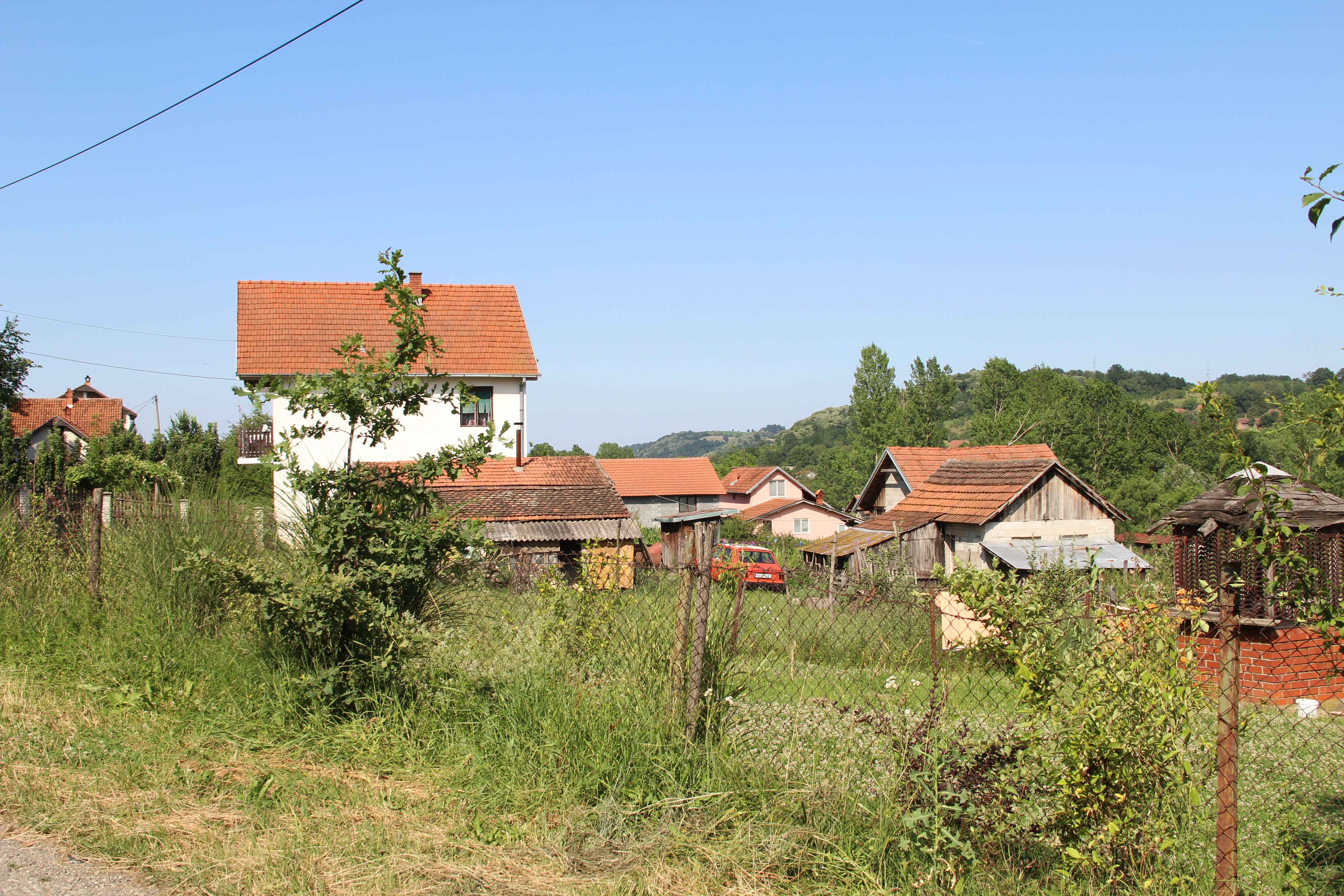 Beloševac village - Municipality of Valjevo - Western Serbia - Panorama 35